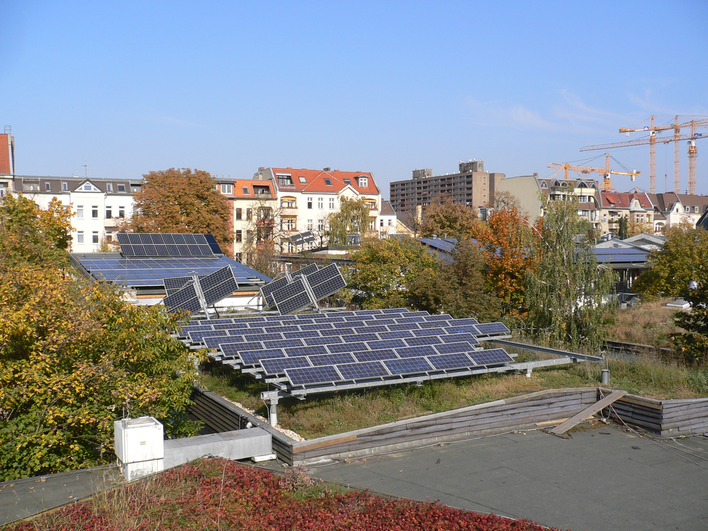 Berlin-Tempelhof, Germany - photovoltaic arrays and green in the ufaFabrik area